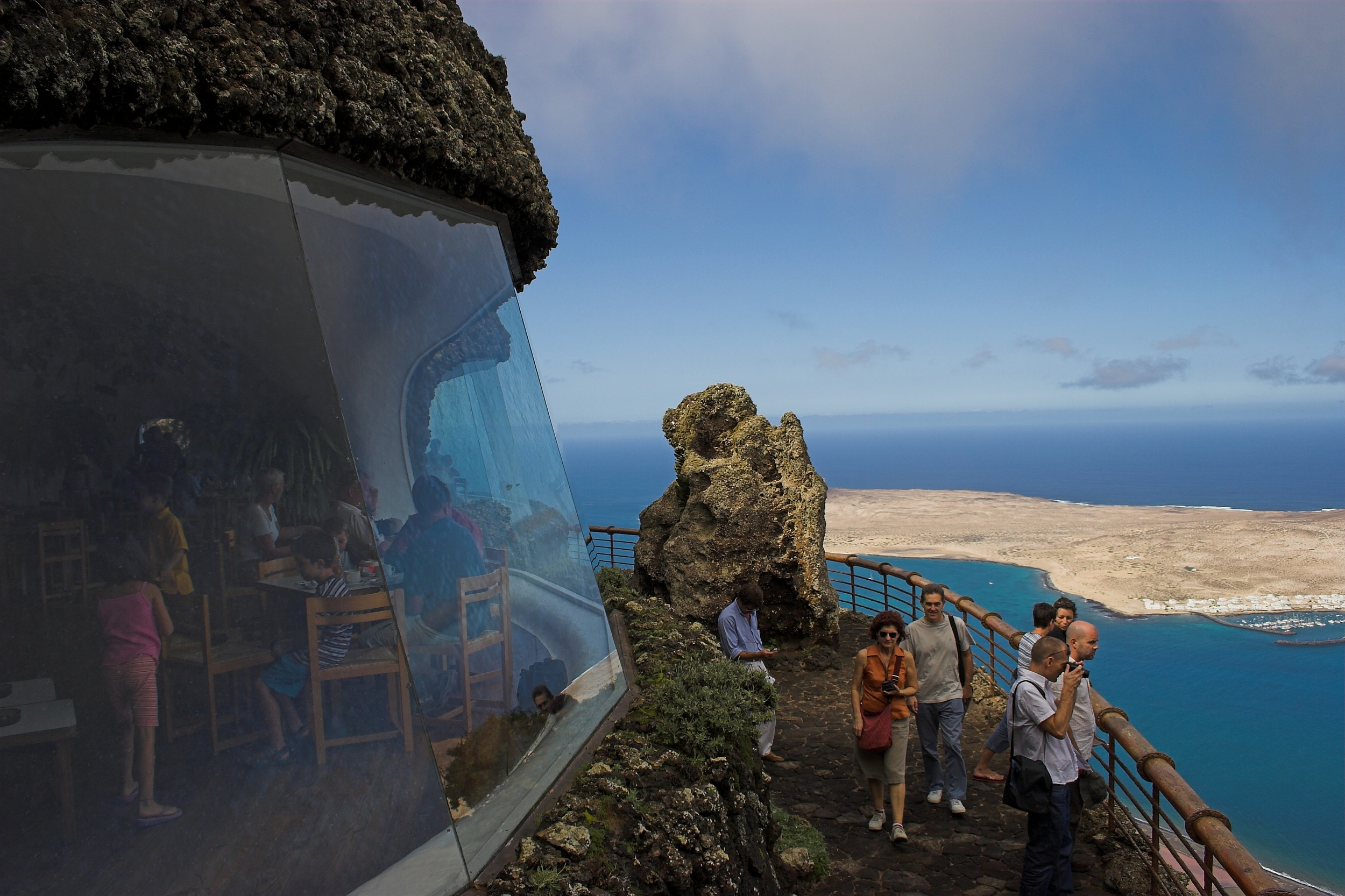 Mirador Del Rio on Lanzarote. La Graciosa can be seen in the background.